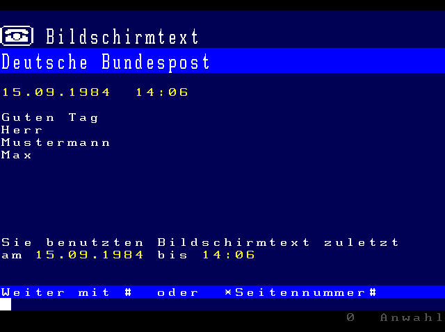 Reconstruiert mit Dargestelt mit "PC Online BTX Software Decoder by drews"